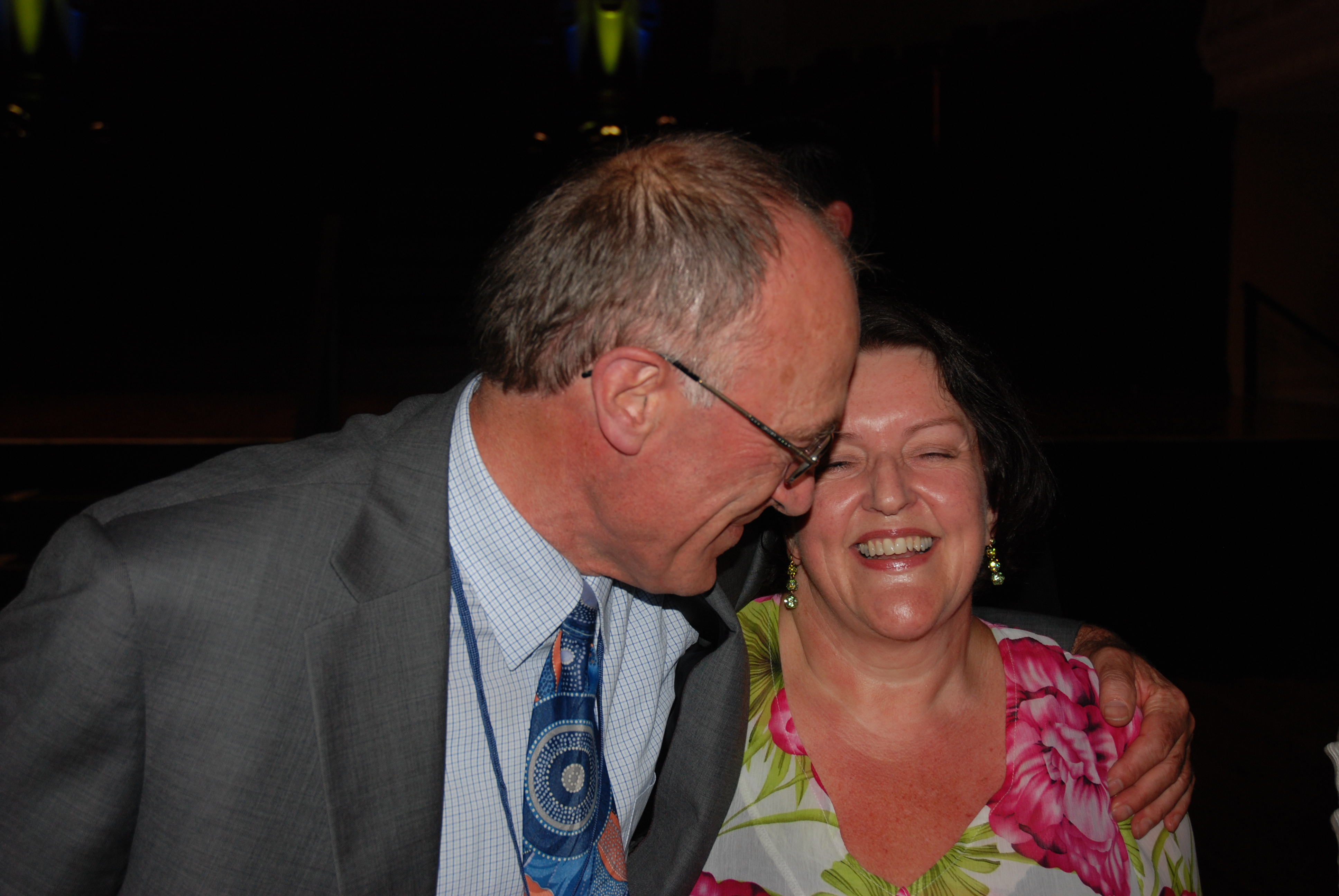 Dr Morgan Williams and entertainer Pinky Agnew at the PCE20 dinner